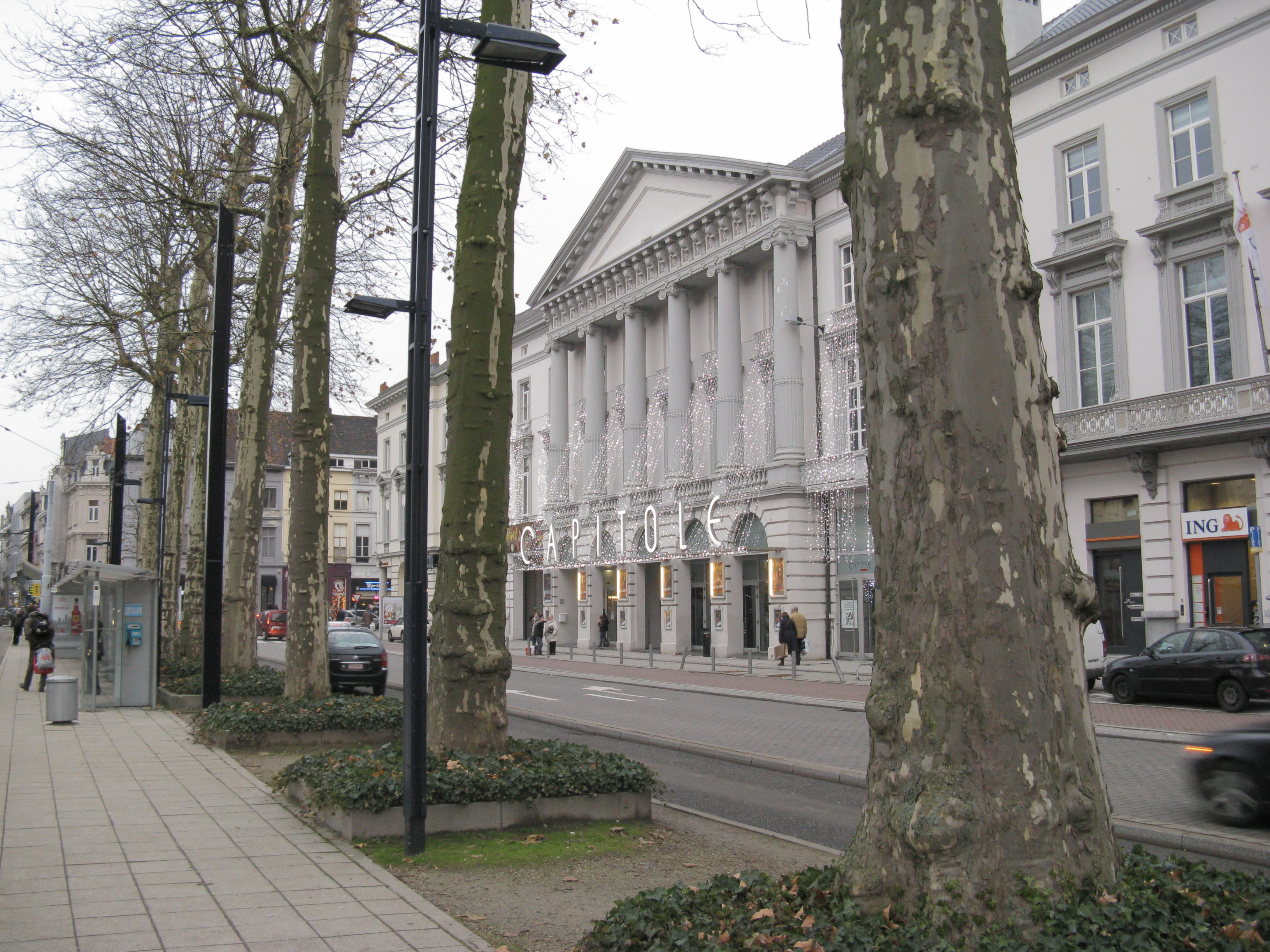 Concert hall Capitole at the square Graaf van Vlaanderenplein in Ghent, Belgium.